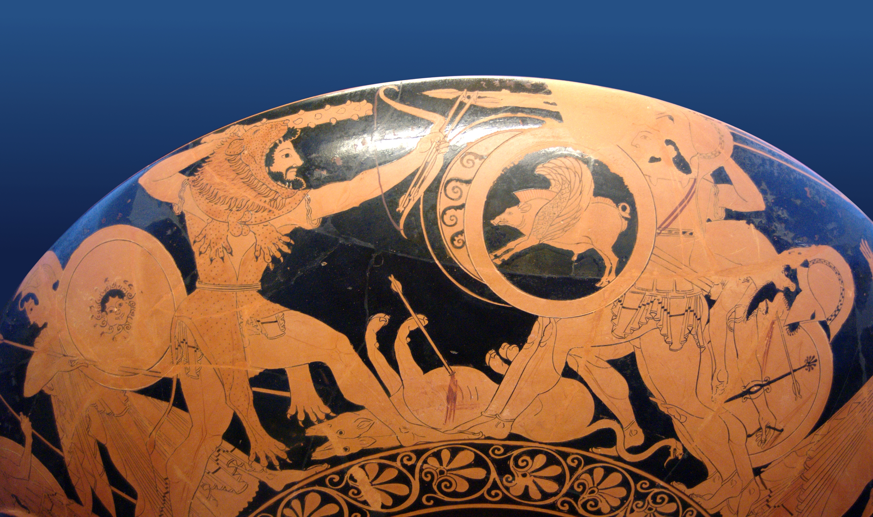 Heracles fighting Geryon. Side A of an Attic red-figure kylix, 510–500 BC. From Vulci.